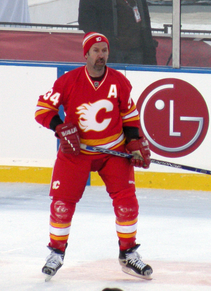 Former NHL player Jamie Macoun during the alumni game at the 2011 Heritage Classic in Calgary.